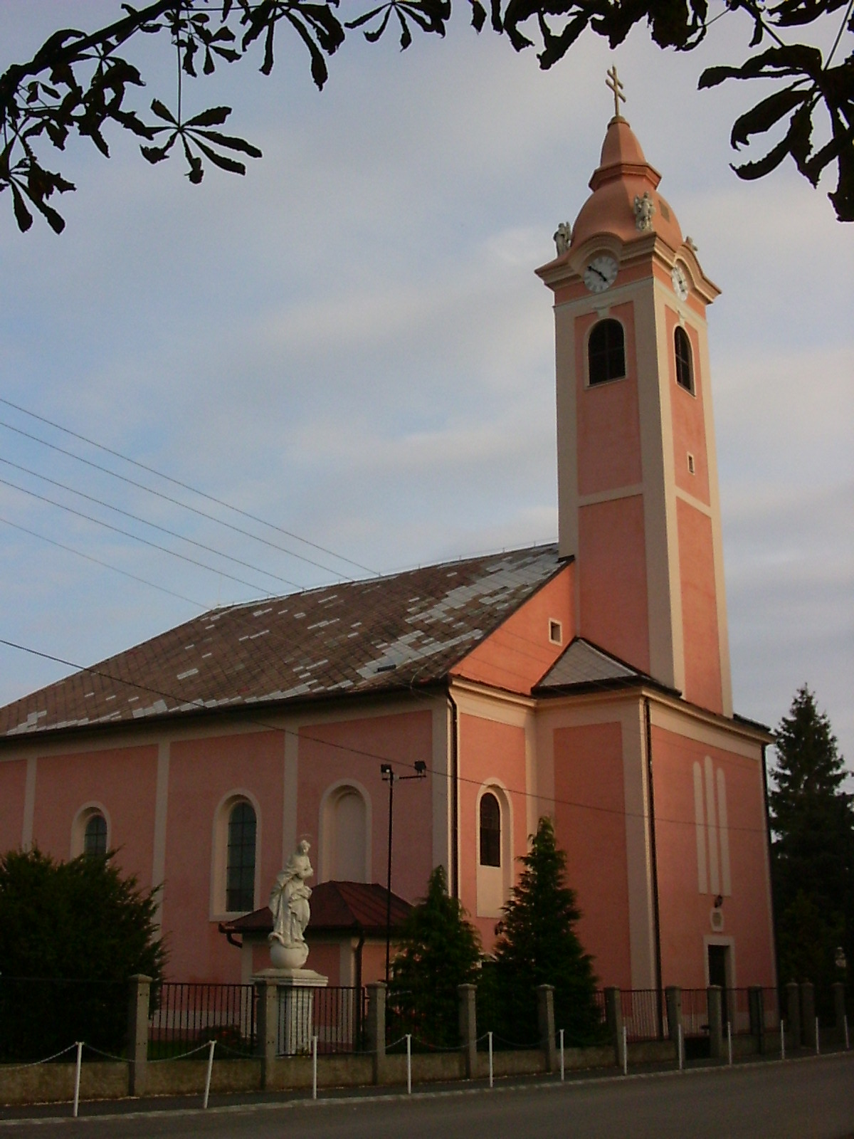 Mihályi, Holy Trinity church This is a photo of a monument in Hungary, Identifier: 4519 This is a photo of a monument in Hungary, Identifier: 4520